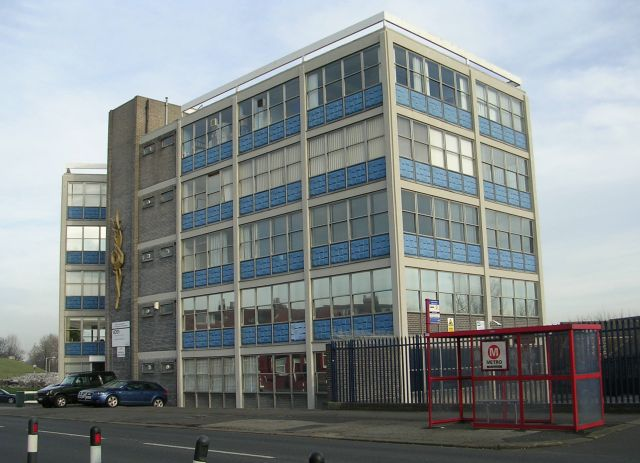 DSA - Harehills Test Centre - Lupton Avenue